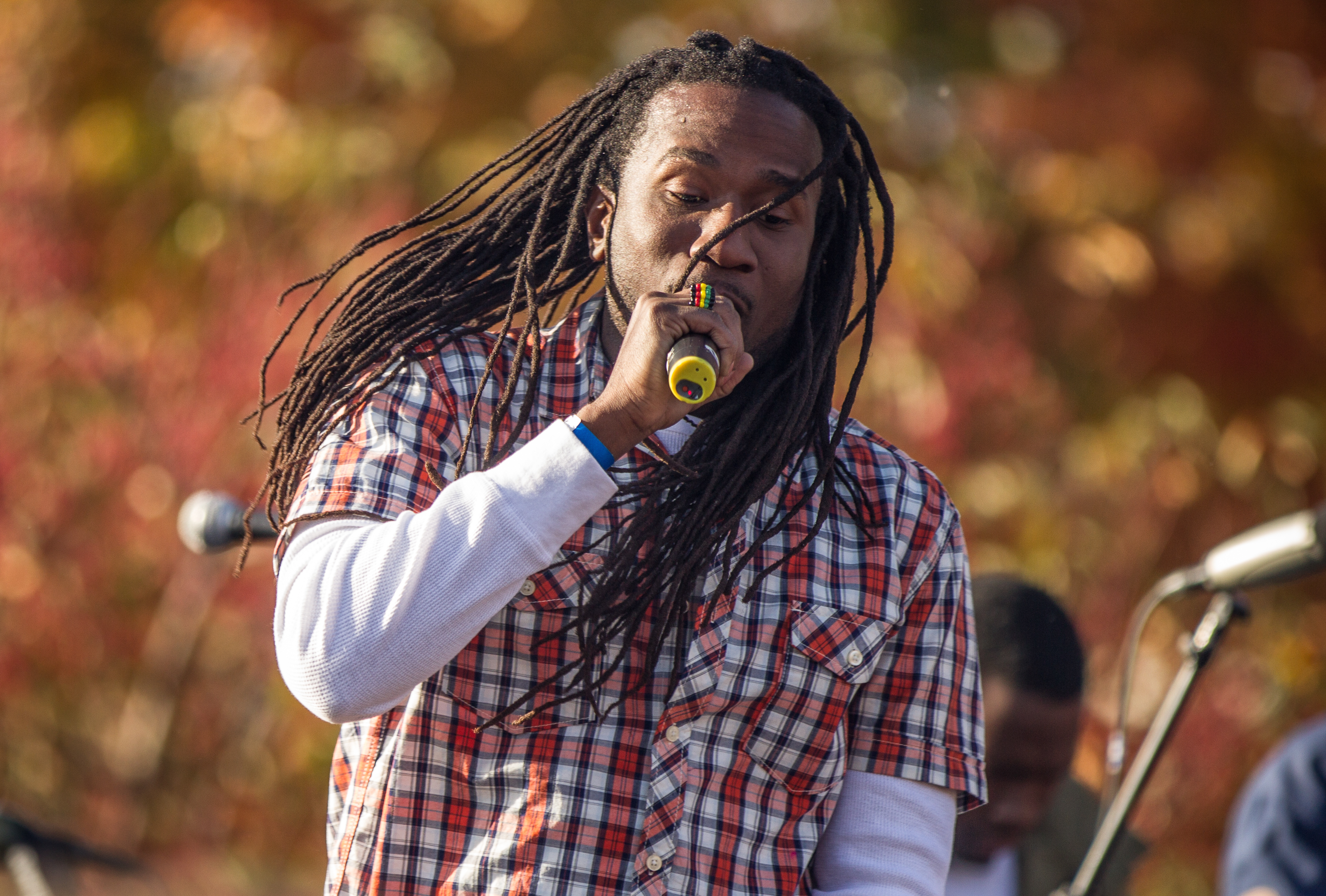 Toki Wright performs at the 2012 Day of Dignity event at Masjid An-Nur in North Minneapolis, Minnesota.